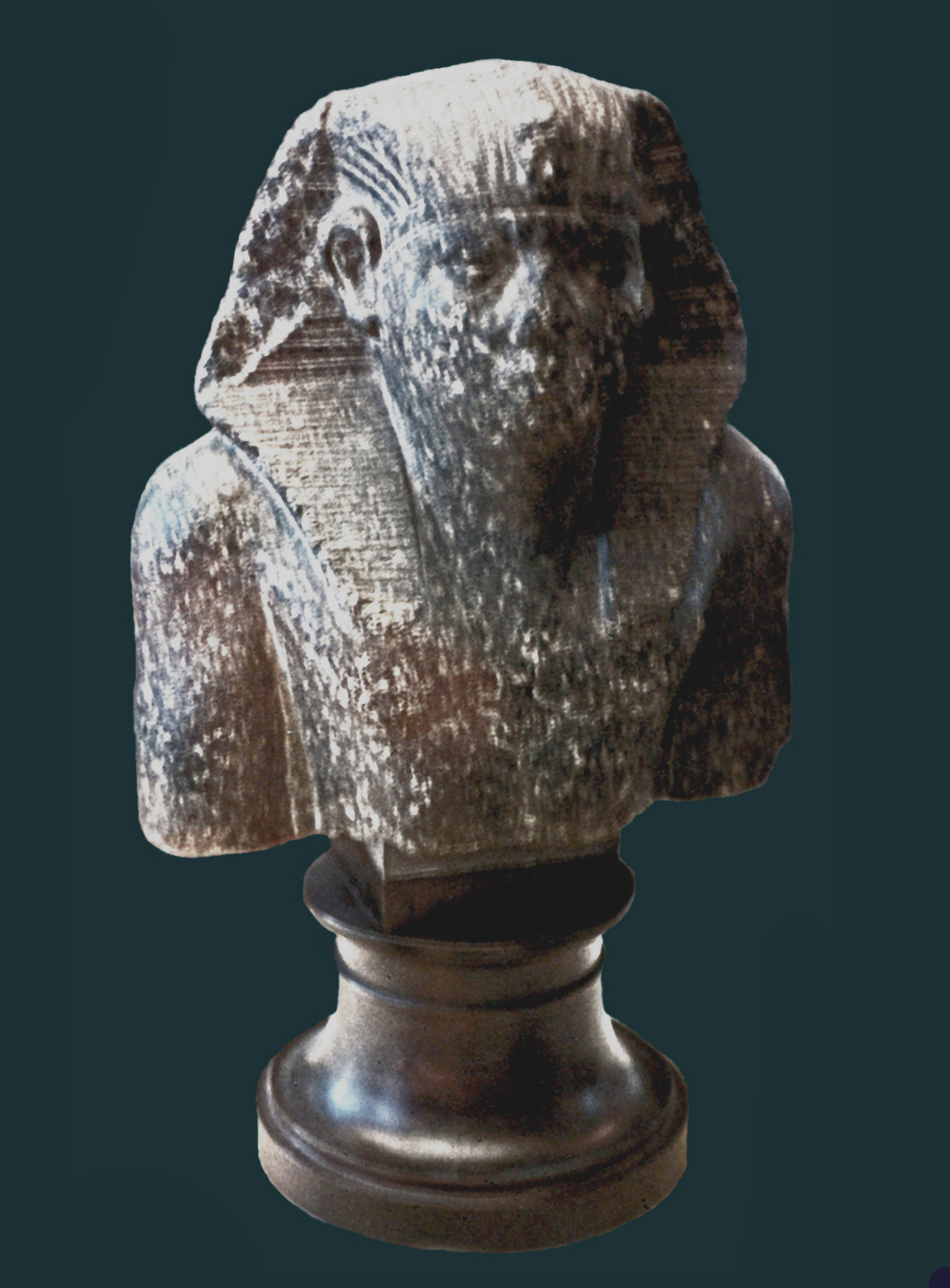 Bust of Senusret II, Vienna, Kunshistorisches Museum.